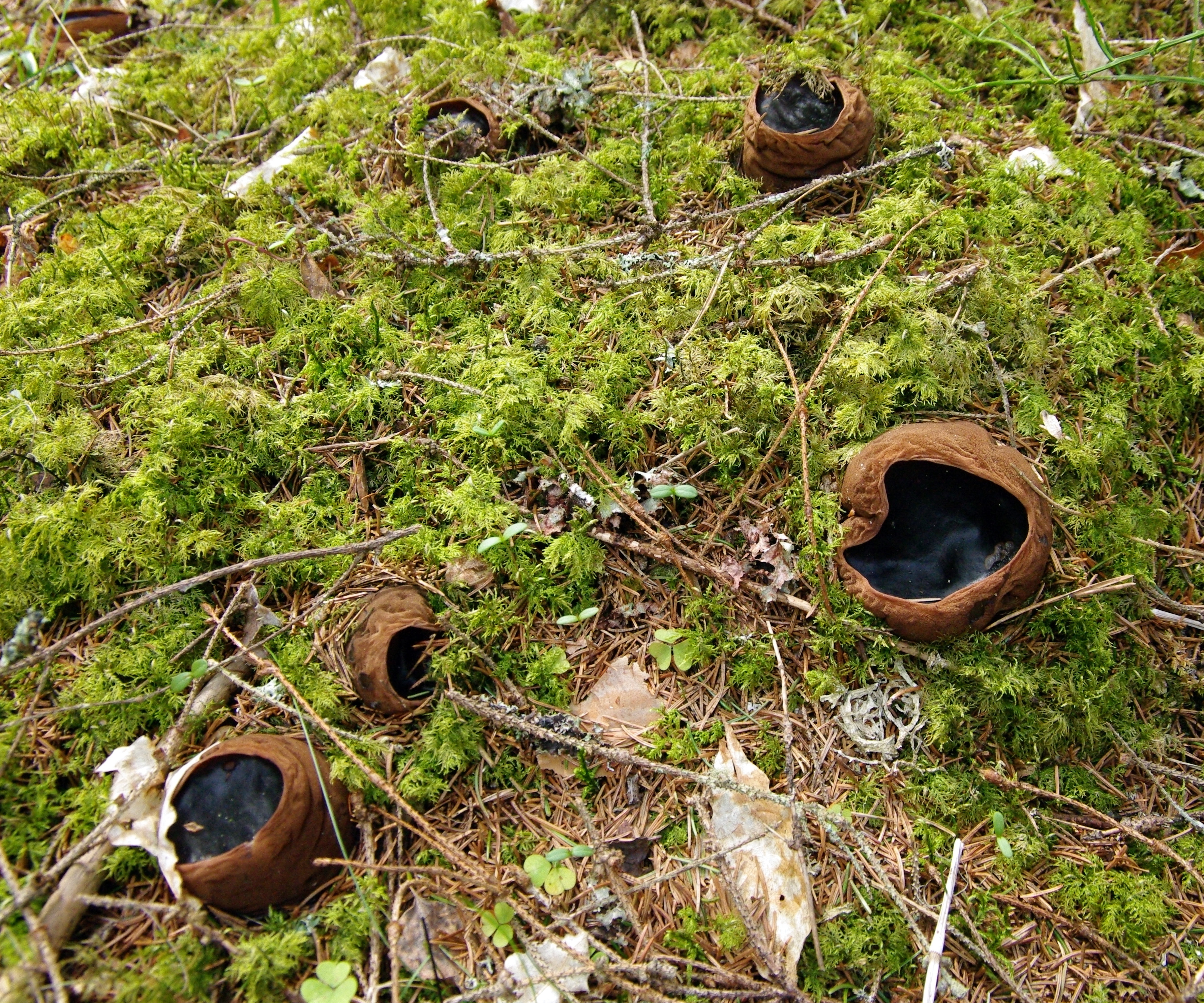 Sarcosoma globosus in Estonia.